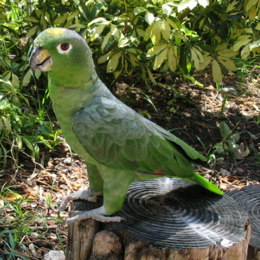 Mealy Amazon (Amazona farinosa) parrot at Jungle Island.